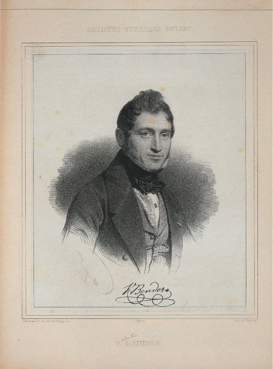 Jean-Valentin Bender (1801-1873), Belgium conductor and composer